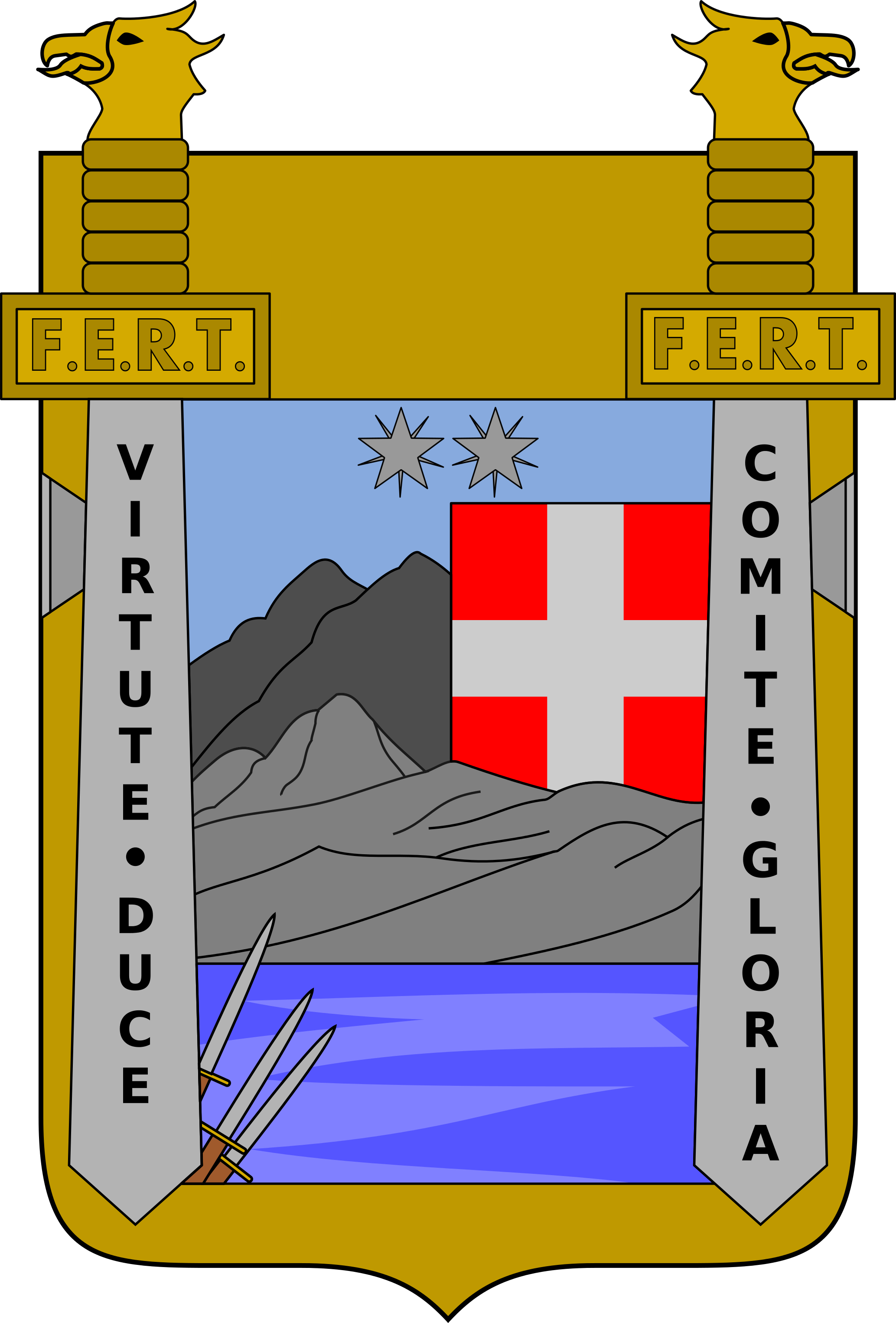 Coat of Arms of the 24th Infantry Regiment "Como", Royal Italian Army, 1939